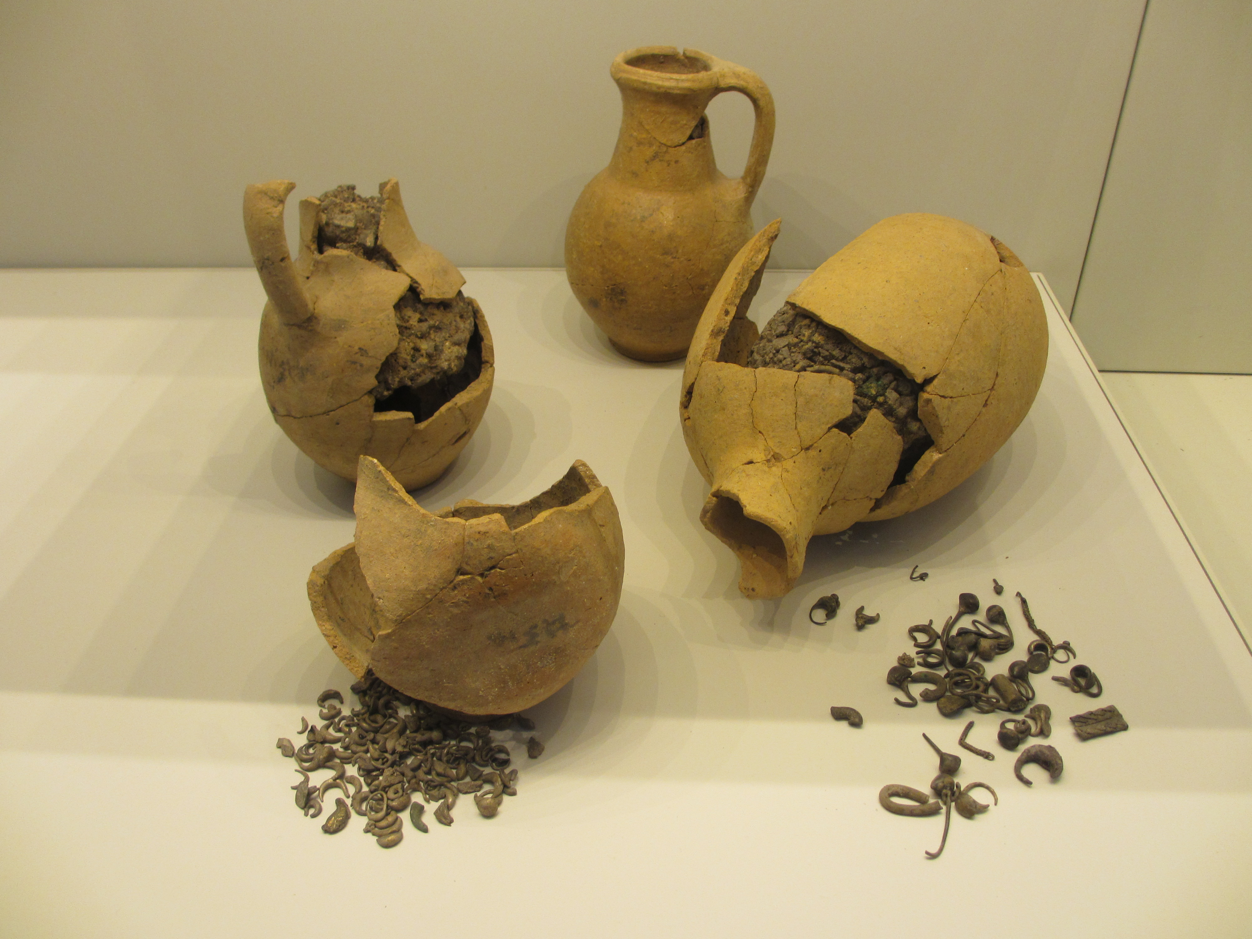 hoard of silver jewelry, Eshtemoa (9th-8th BCE) inscription in ink with word "hamesh" in ancient hebrew script, meaning five hundred shekels in weight. Israel Museum, Jerusalem